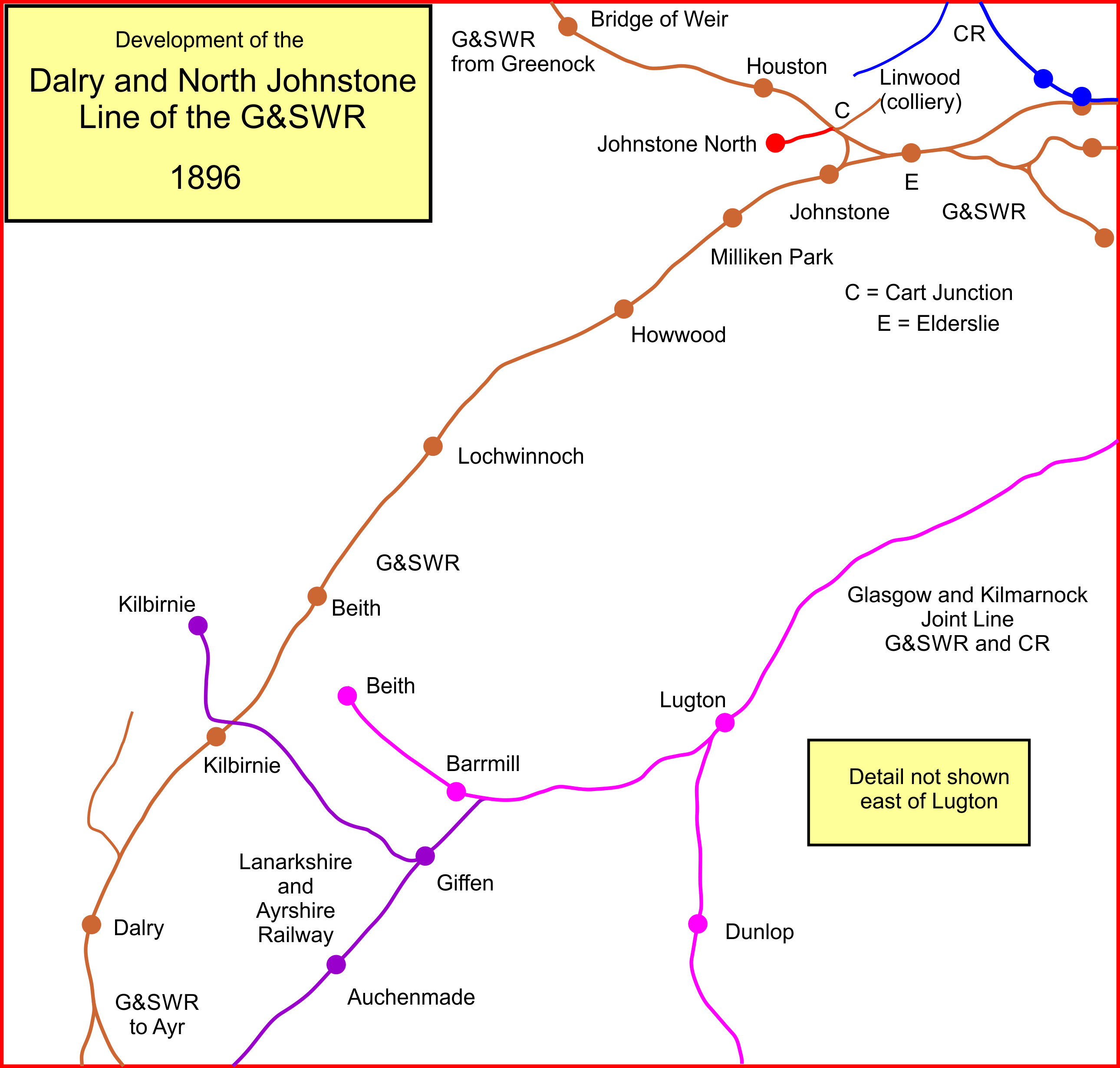 System map of the Dalry and North Johnstone line in 1896